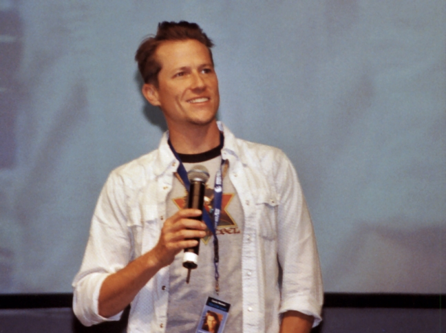 American actor Corin Nemec at FedCon XIV in Bonn, Germany, 2005.